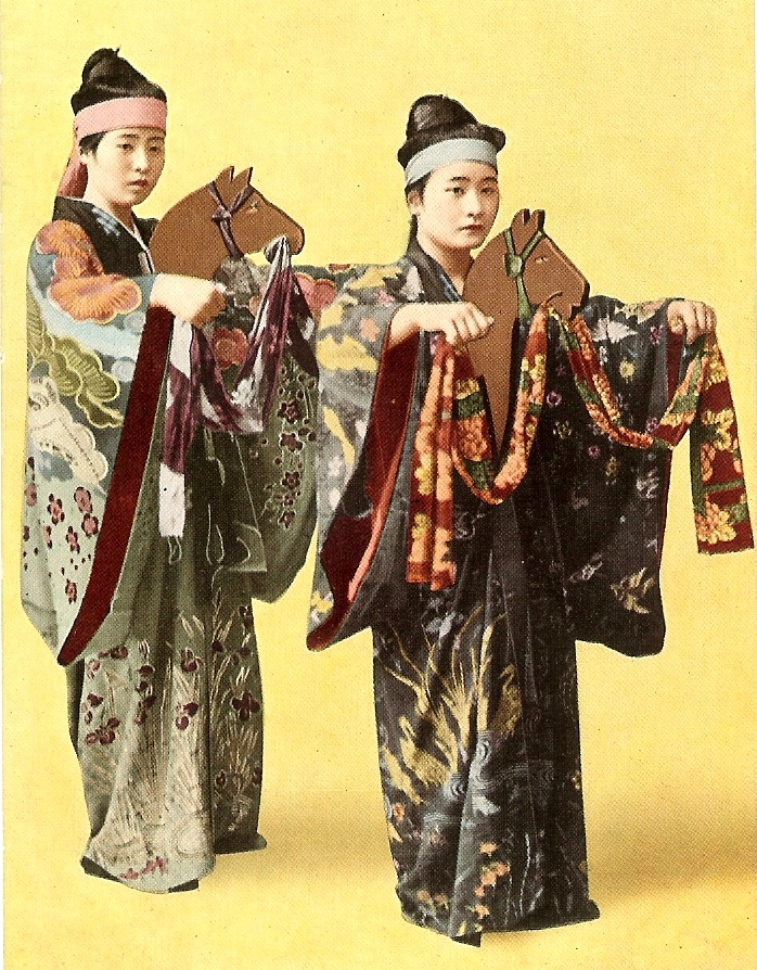 Okinawan "JURI"